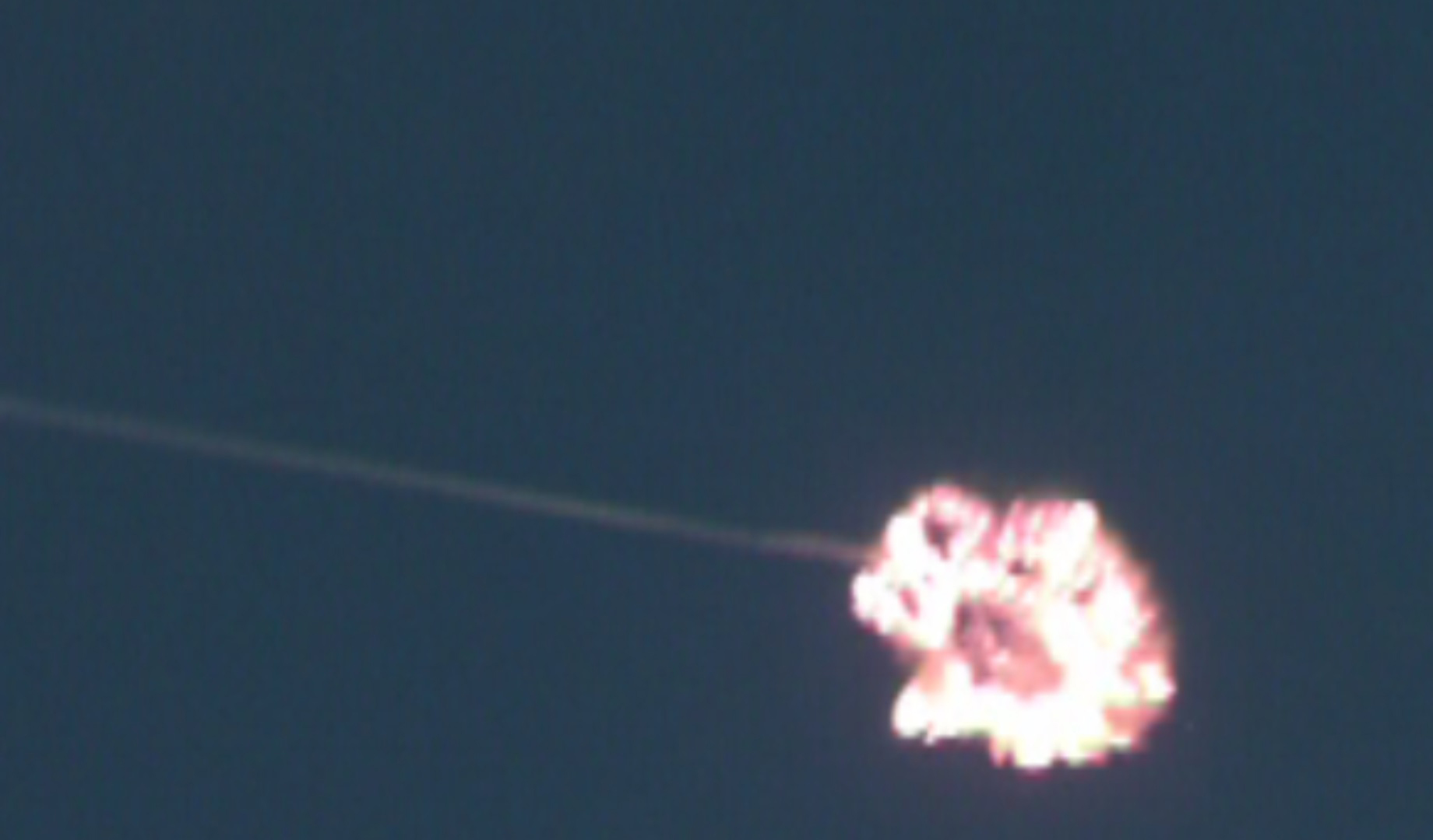 The Israel Missile Defense Organization (IMDO) of the Directorate of Defense Research and Development (DDR&D) and the U.S. Missile Defense Agency (MDA) successfully completed a series of tests of the David's Sling Weapon System. This test series, designated David's Sling Test-4 (DST-4), was the fourth series of tests of the David's Sling Weapon System and the final milestone before declaring delivery of an operational system to the Israeli Air Force in 2016.